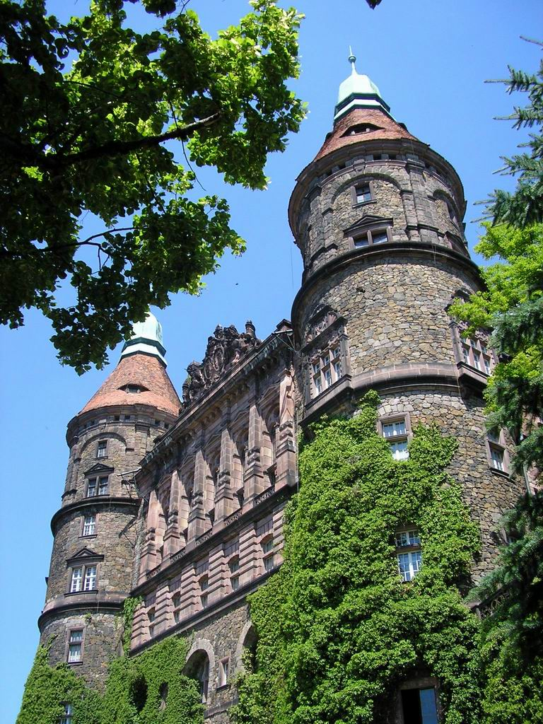 The western facade-main tower (Ksiaz)